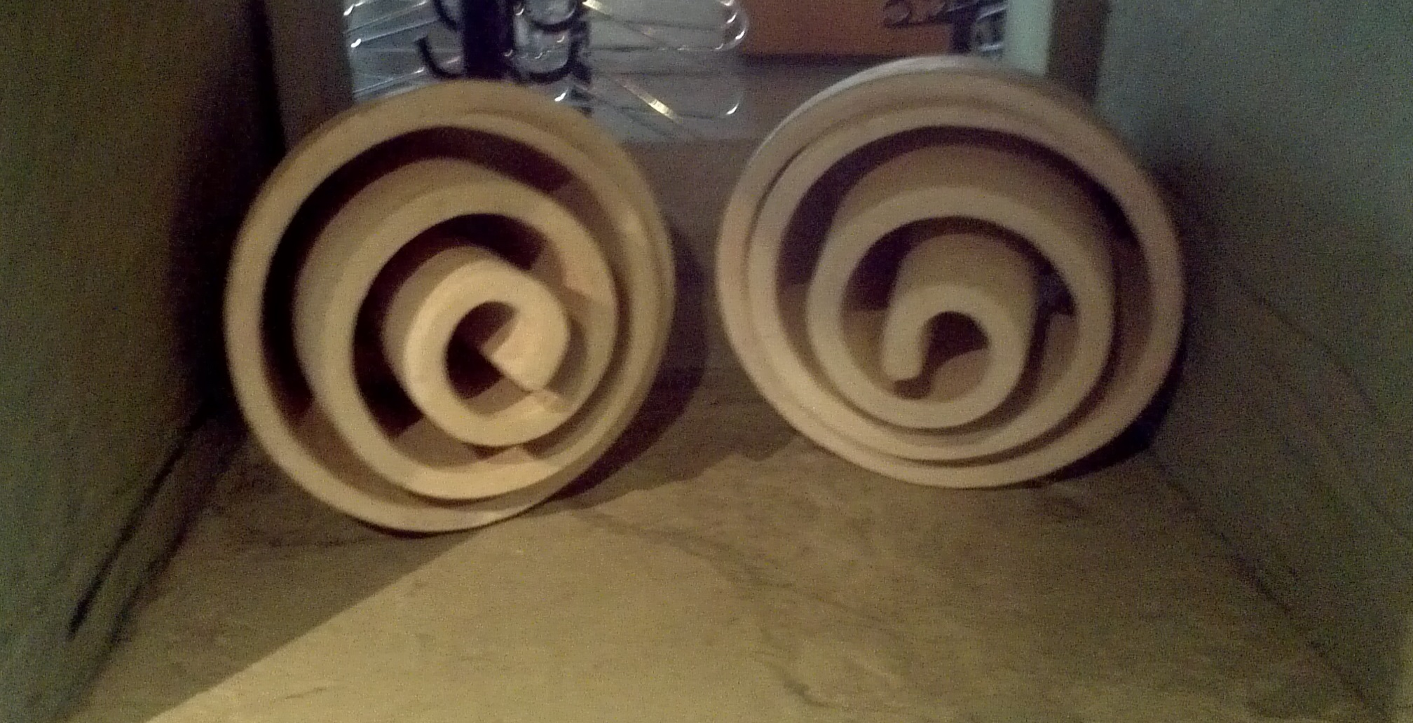 Work Hafis Bertschinger's